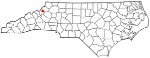 Category:North Carolina Dot Maps